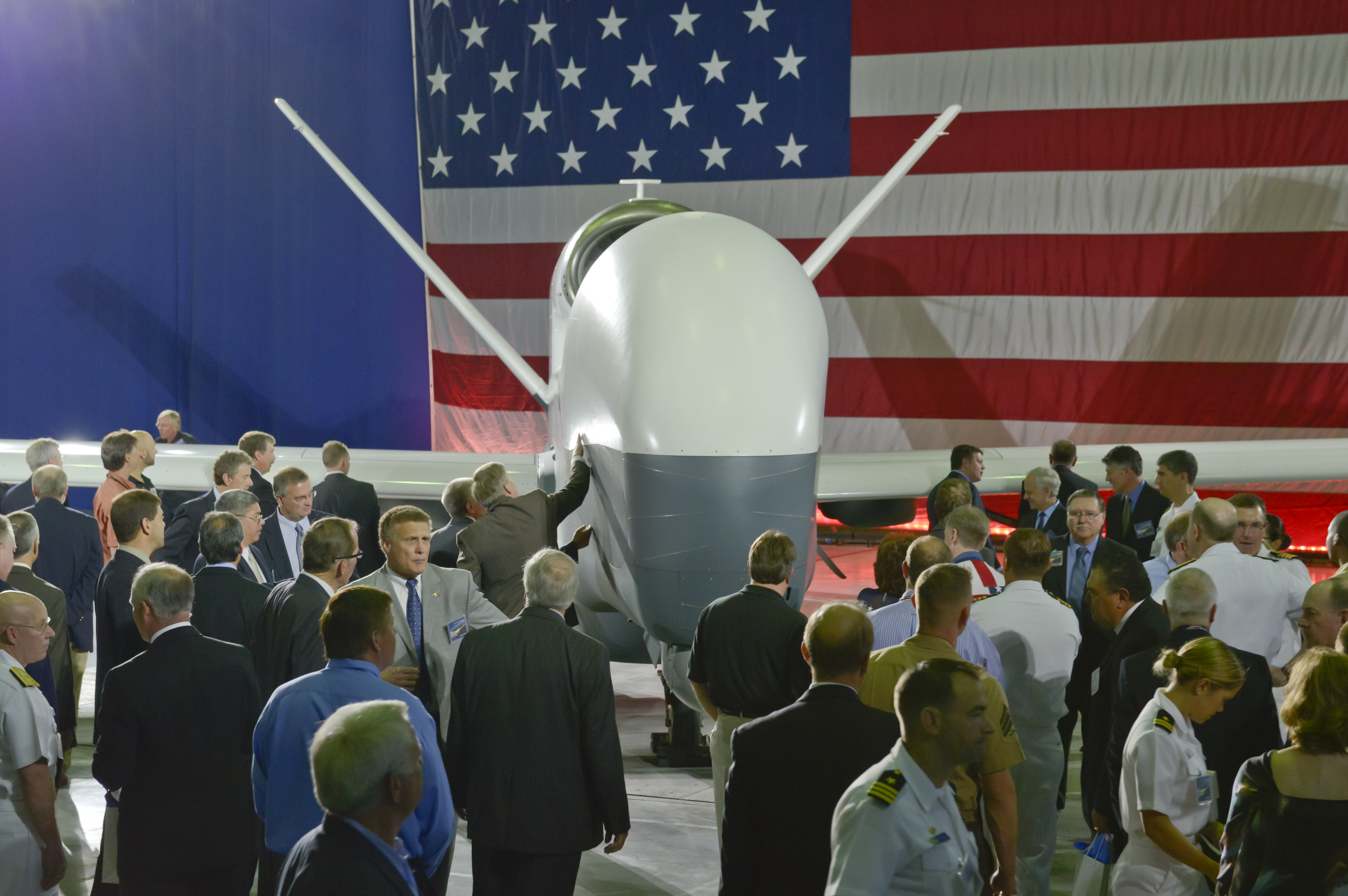 PALMDALE, Calif. (June 14, 2012) Northrop Grumman unveils the U.S. Navy MQ-4C Broad Area Maritime Surveillance (BAMS) unmanned aircraft system during a ceremony at the Northrop Grumman Palmdale Calif. manufacturing facility. Officially called the Triton, the MQ-4C is a surveillance aircraft and will be an adjunct to the P-8A Poseidon as part of the Navy's maritime patrol and reconnaissance force. (U.S. Navy photo courtesy Northrup Grumman/Released) 120614-N-ZZ999-001 Join the conversation navylive.dodlive.mil